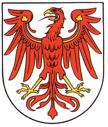 House of Ascania